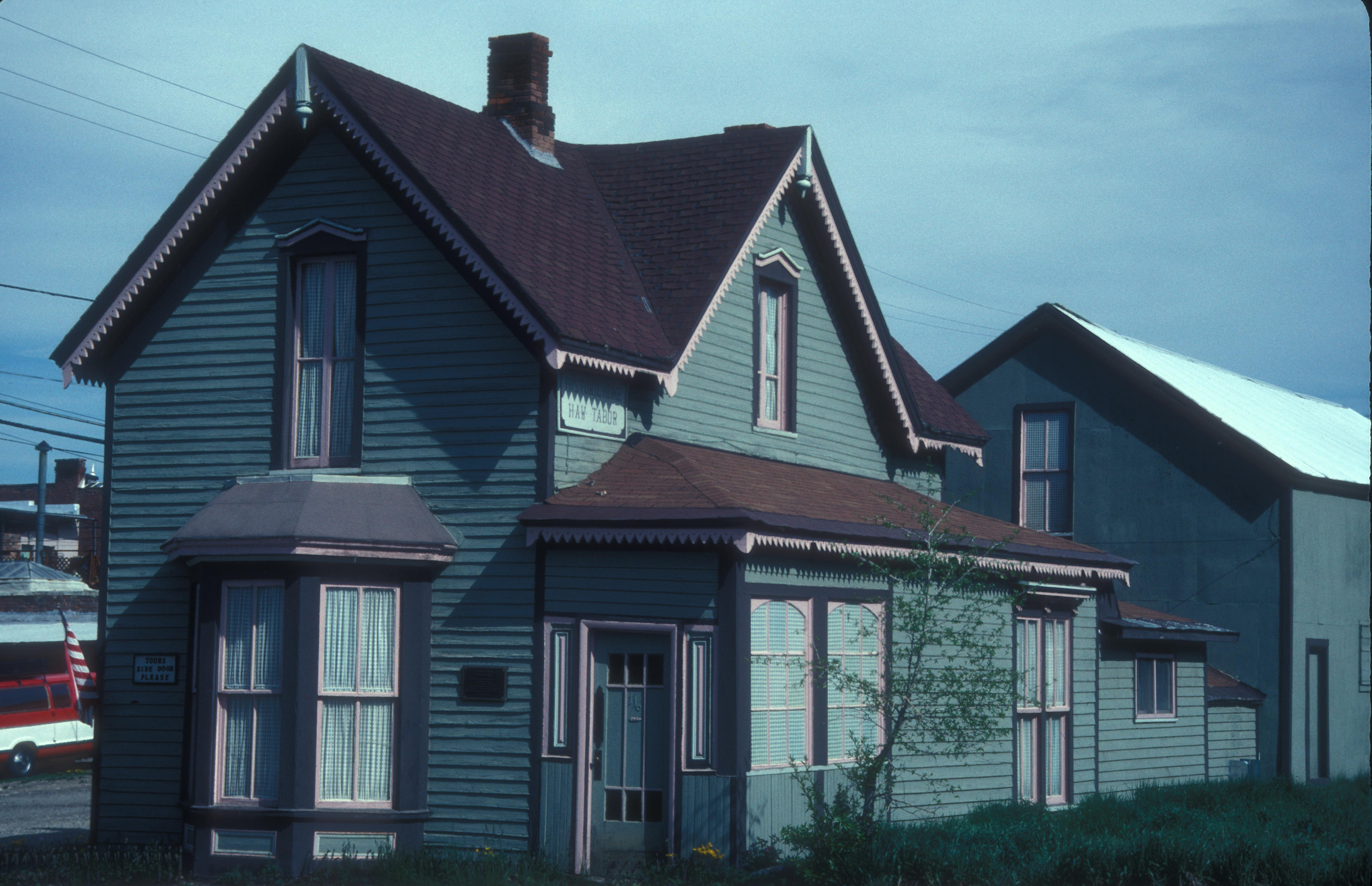 HORACE A. TABOR HOME; HERE TABOR, THE BONANZA KING OF LEADVILLE, LIVED WITH HIS FIRST WIFE AUGUSTA; BABY DOE TABOR NEVER LIVED IN THIS HOUSE